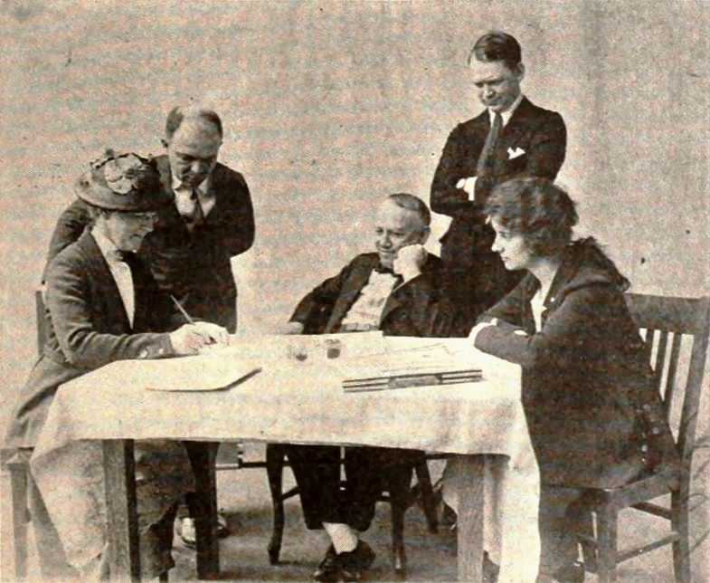 Signing of 5 year contract with Universal, from left: mother of actress Gertrude Olmstead signing contract for her daughter, president of Universal Carl Laemmle, Universal general manager H. M. Berman, Universal publicist Harry Rice, and Gertrude Olmstead, on page 47 of the August 7, 1920 Exhibitors Herald.